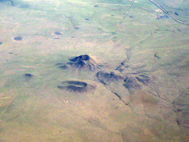 Oblique air photo of Mount Clayton, NM, facing north. 1 August 2011.